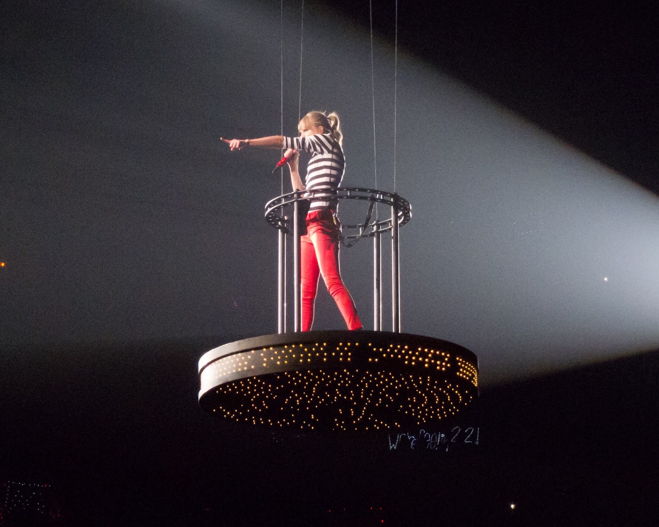 Taylor Swift during the Red Tour, March 2013